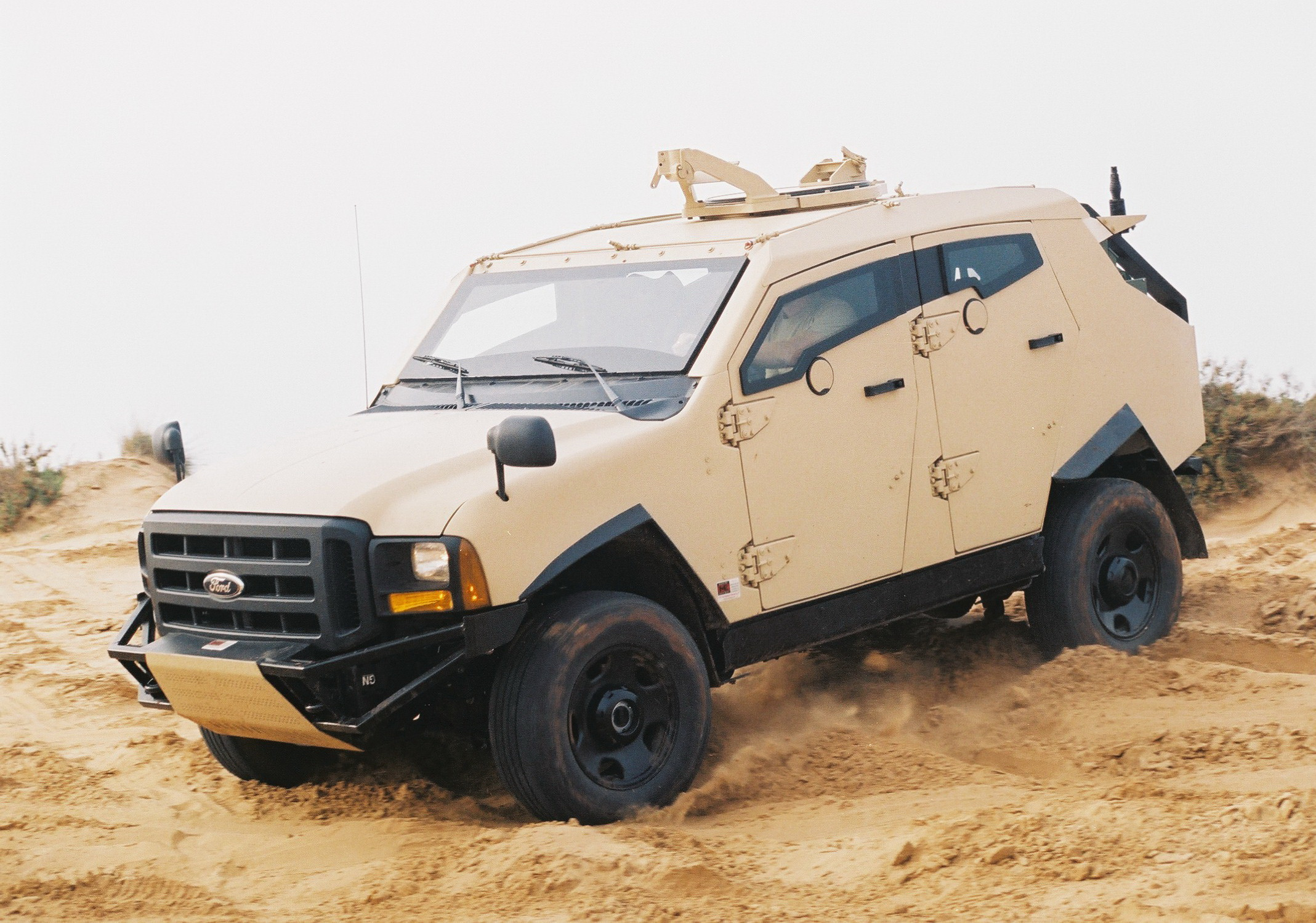 Plasan Sand Cat armored vehicle based on a shortened Ford F350 platform. Designed by Nir Kahn.